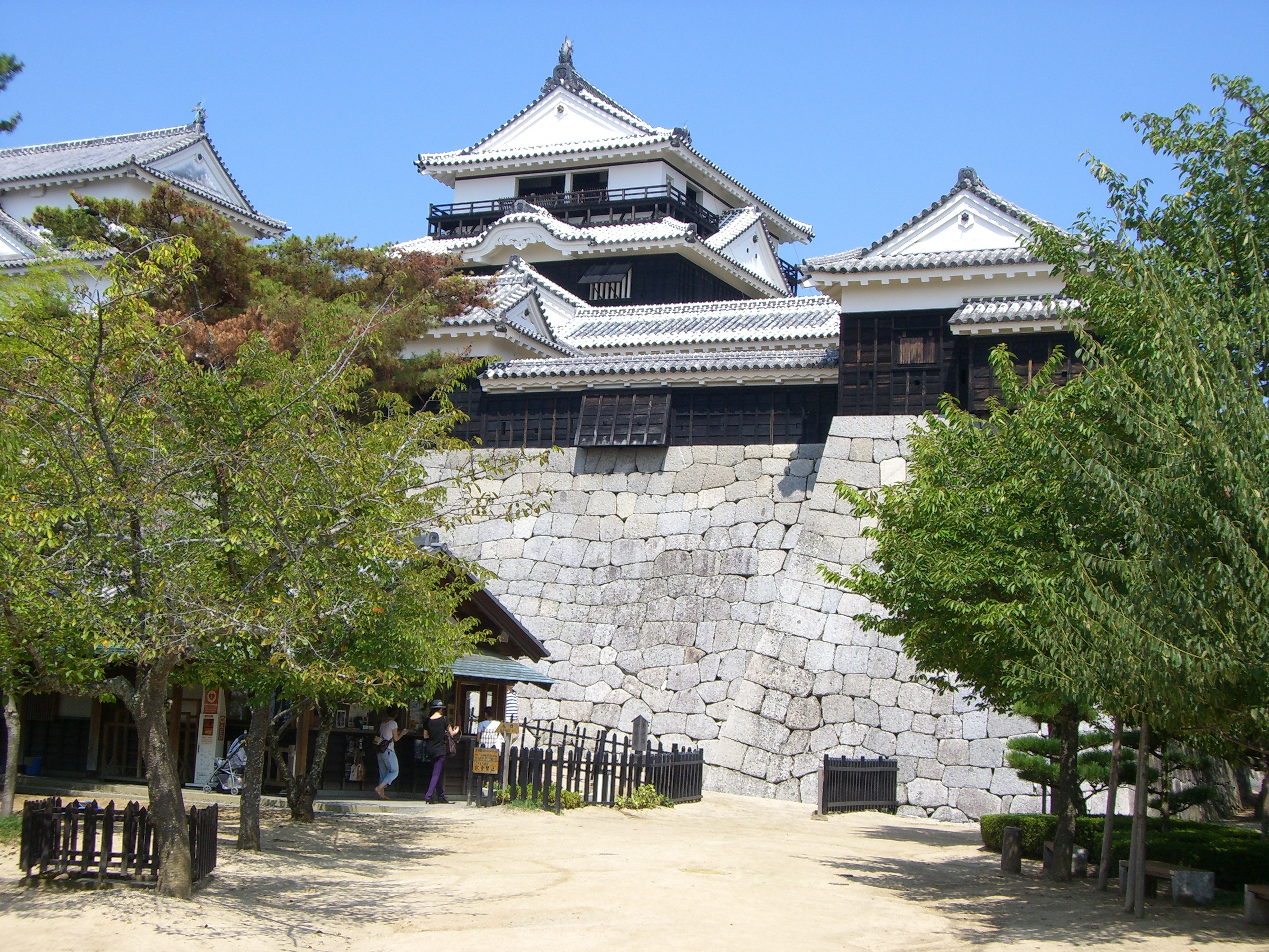 The Matsuyama-castle is one of the three famous and large - multiple-wing castles in Japan. The Castle Tower was destroyed by fire in 1784,. However, when it was reconstructed in 1854, great care was taken to use traditional carpentry techniques and materials. Many of the castle buildings are designated as Important Cultural Properties. It is possible to walk up the hill (132m) to the castle or to go up by rope-way or chair-lift. The Matsuyama-castle is symbol of Matsuyama City. (Ehime, JAPAN).